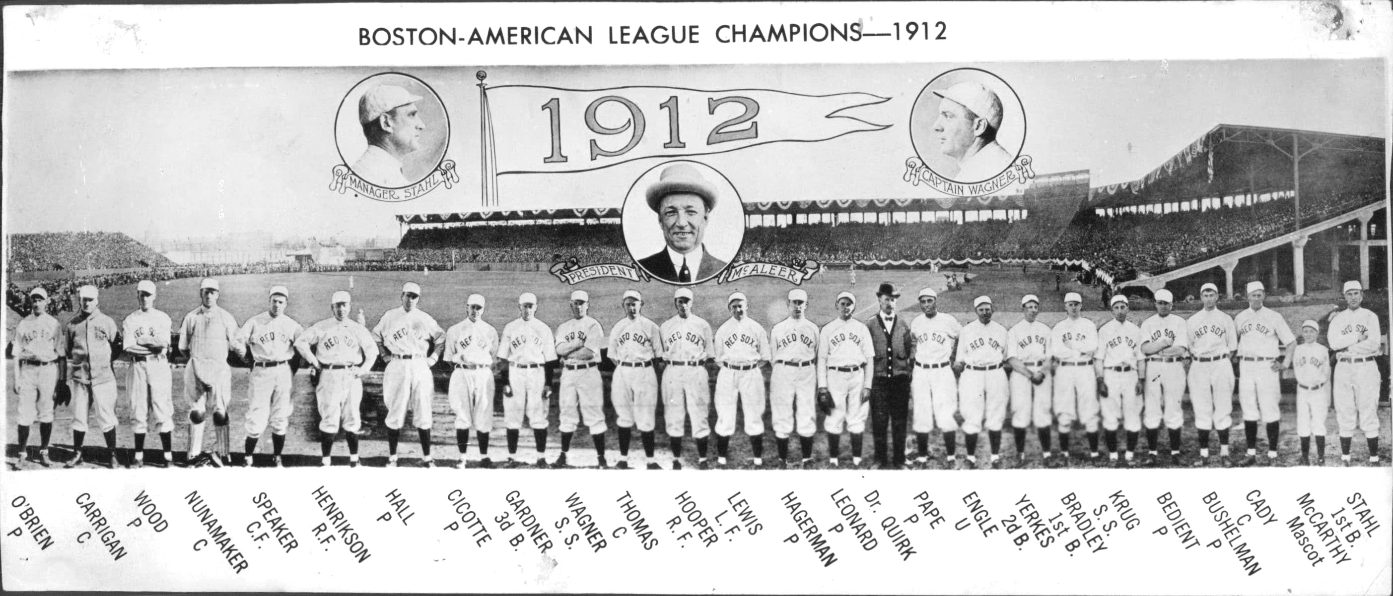 Originally from the Vermont Sunday News